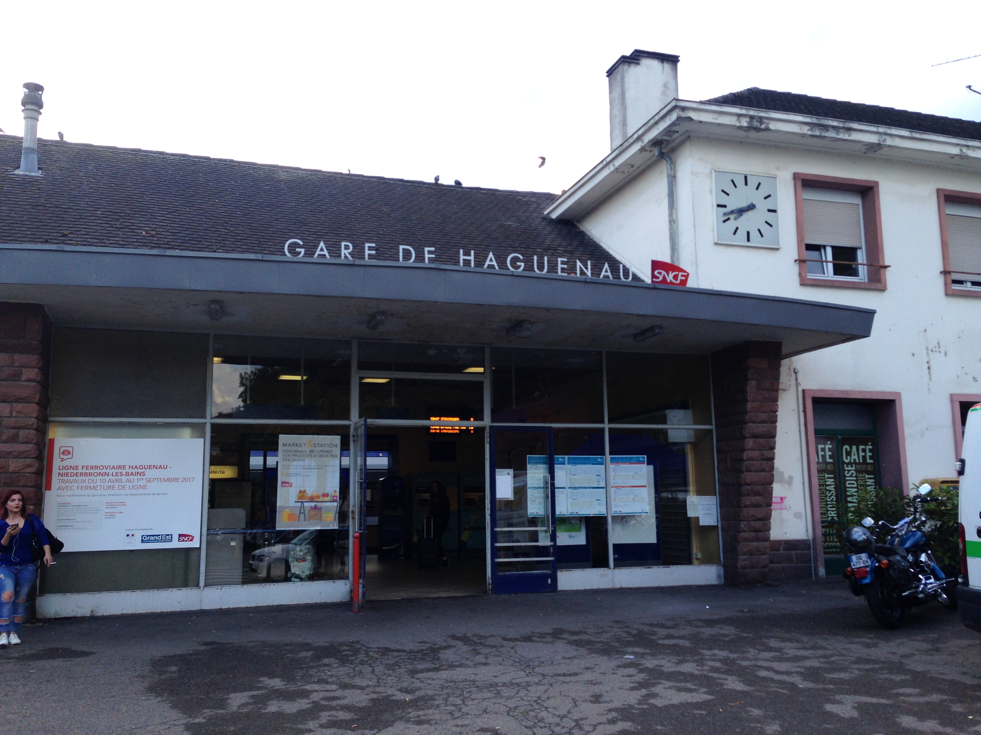 Gare de Haguenau en 2017